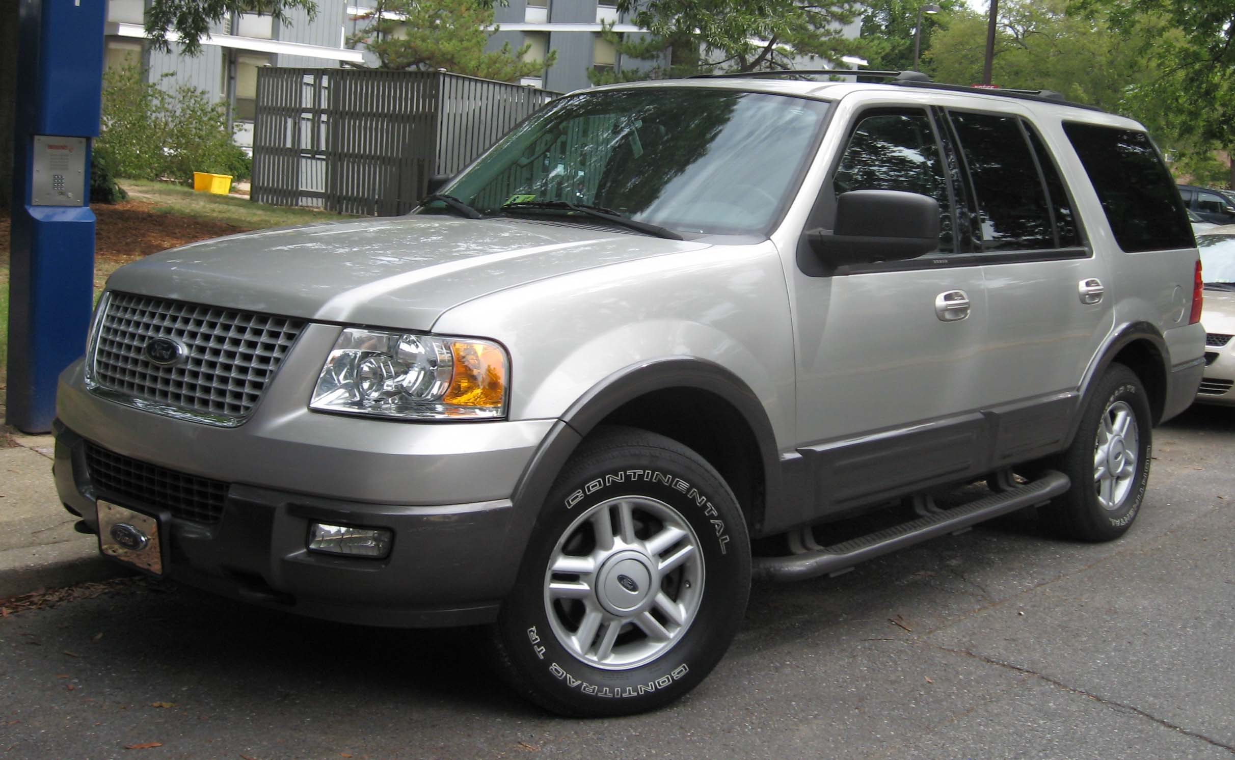 2003-2006 Ford Expedition photographed in College Park, Maryland, USA.